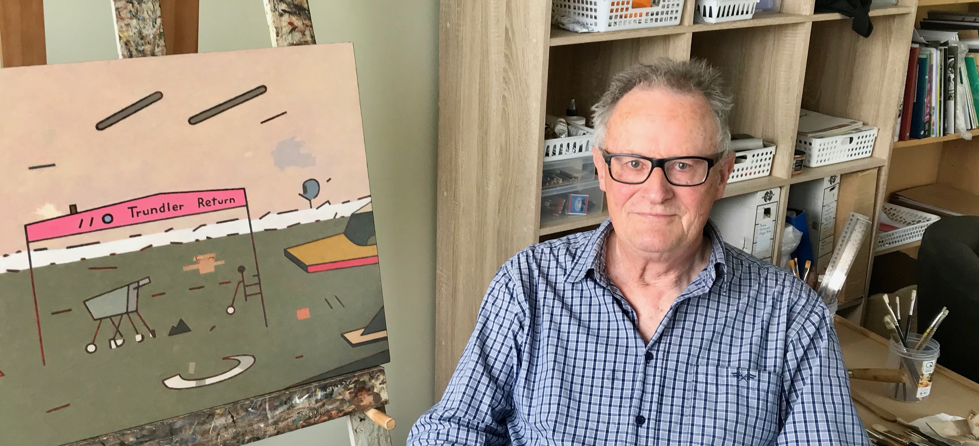 Artist and illustrator Des Helmore with a work in progress, in his home in Hastings, New Zealand